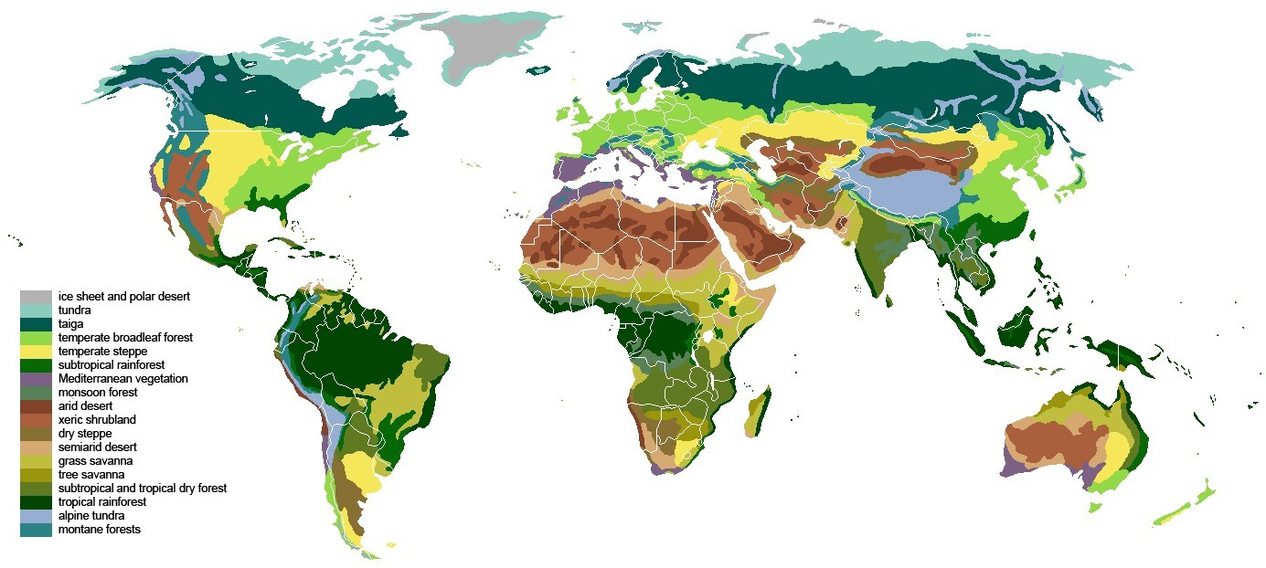 The main biomes in the world.